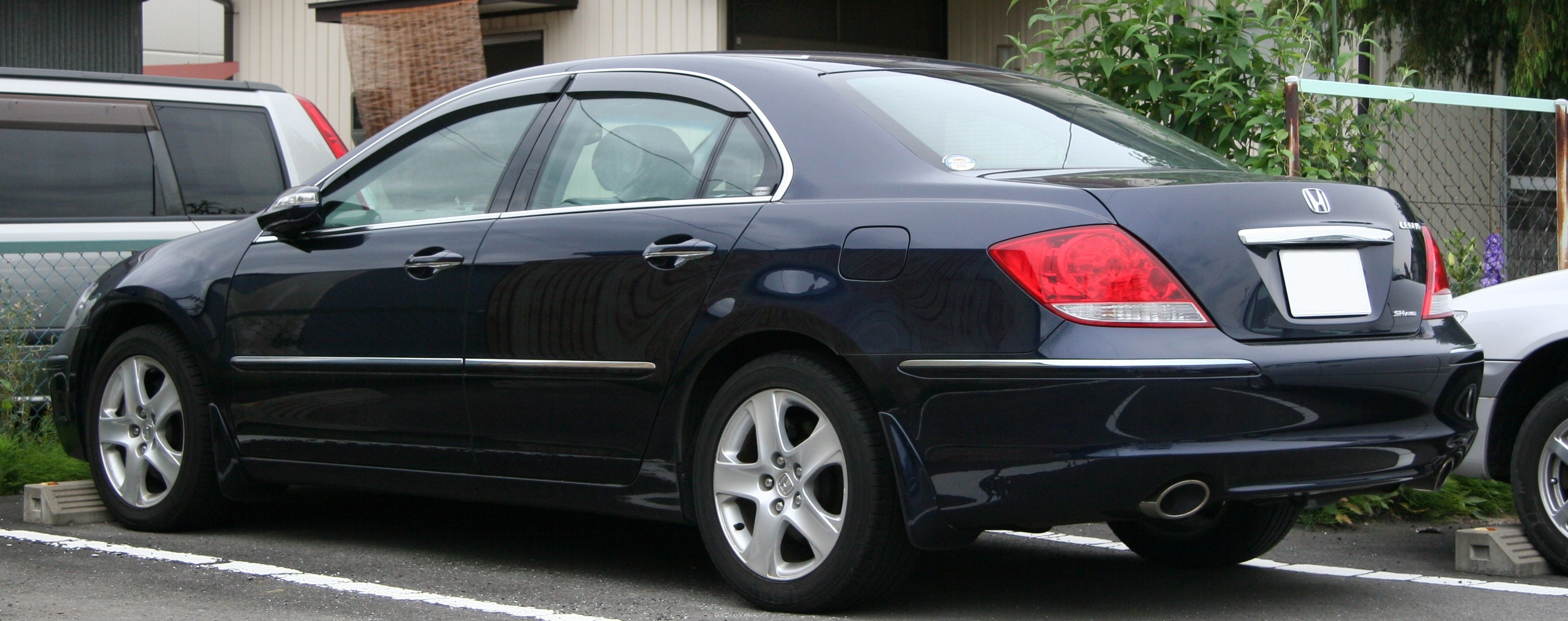 Honda Legend